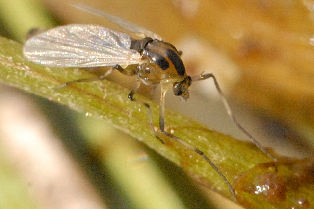 Potthastia gaedii from Commanster, Belgian High Ardennes .